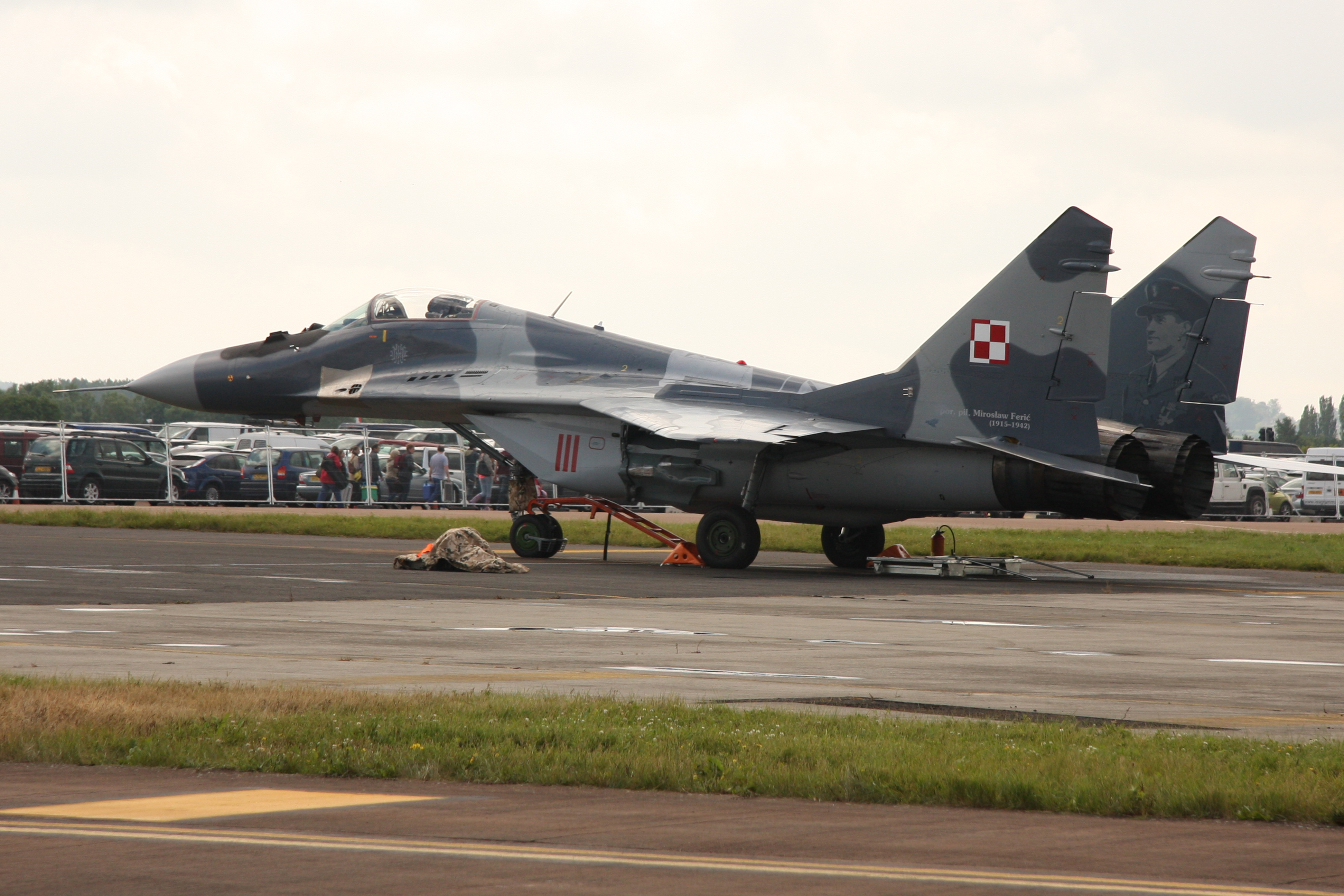 MiG-29 with portait of Mirosław Ferić at Royal International Air Tattoo in 2012.